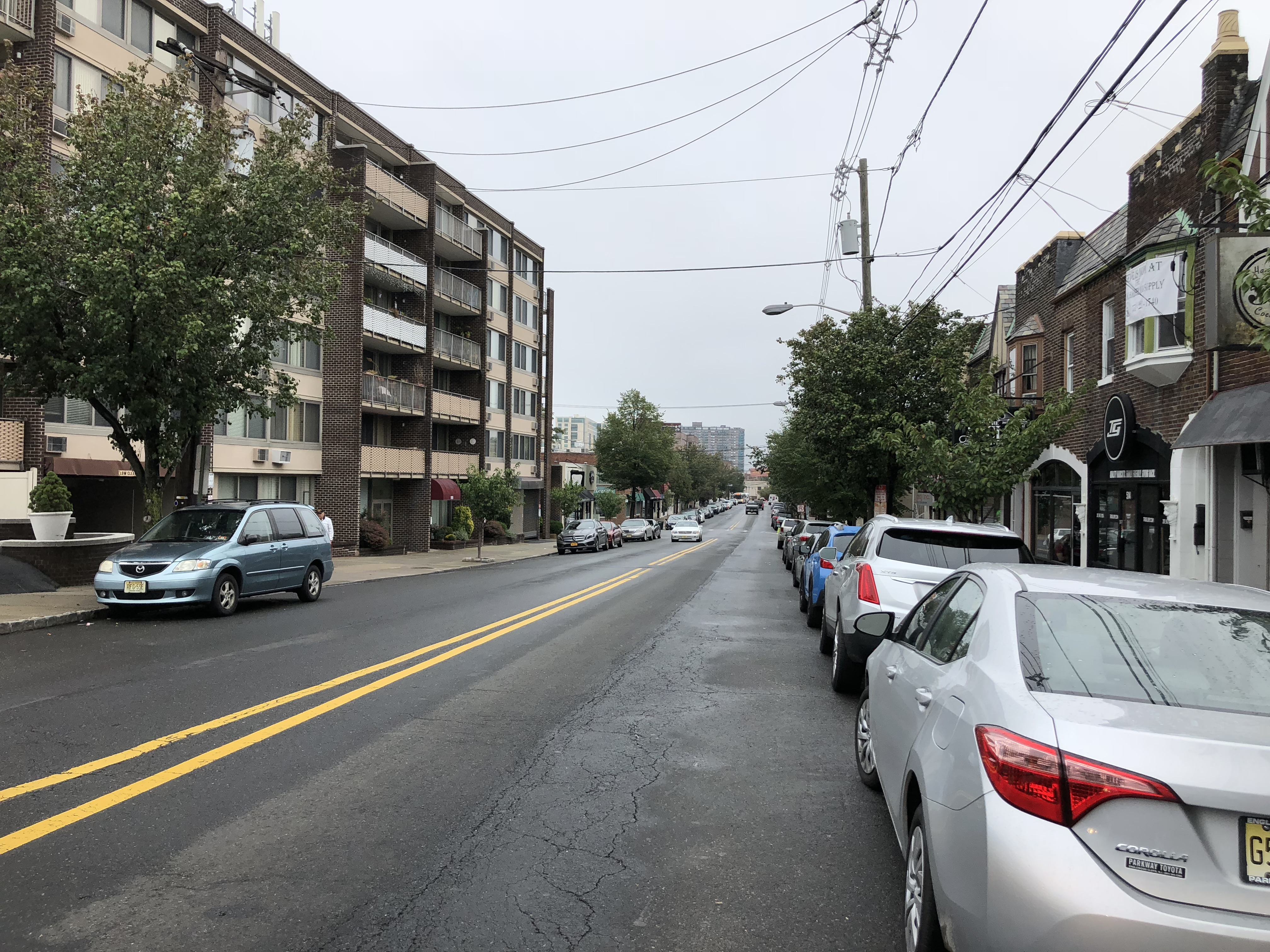 View north along Bergen County Route 29 (Anderson Avenue) between Bergen County Route 50 (Edgewater Road) and Greenmount Avenue in Cliffside Park, Bergen County, New Jersey